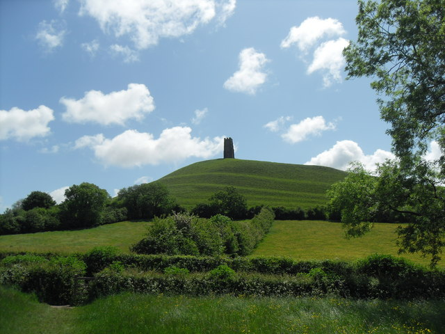 Glastonbury Tor This magical hill overlooks the Isle of Avalon,the Somerset levels and Glastonbury. St Michael's tower was built in the 15th century. The views from there are breath taking!